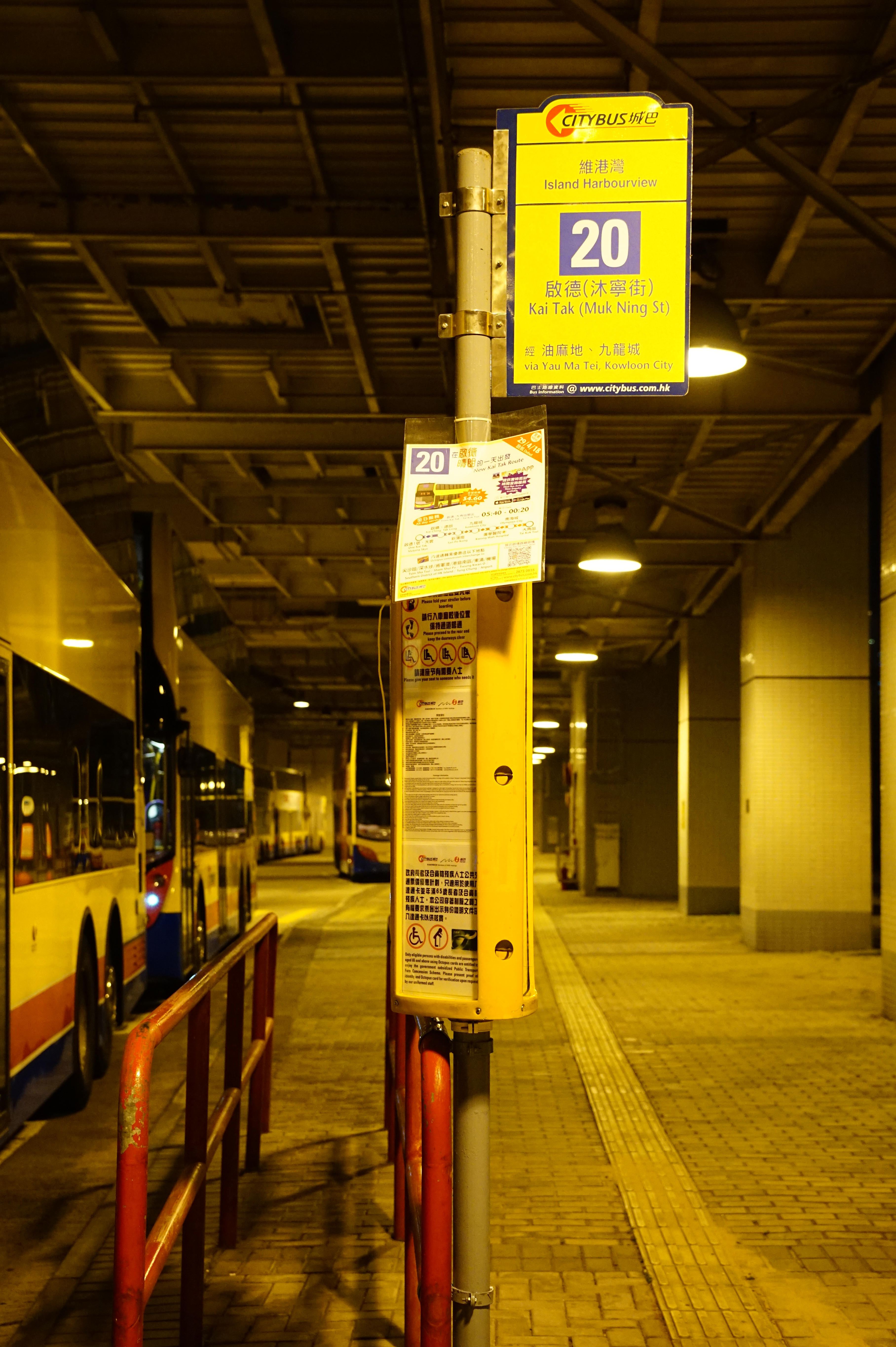 The bus stop of Citybus Route 20 at Tai Kok Tsui (Island Harbourview) Public Transport Interchange